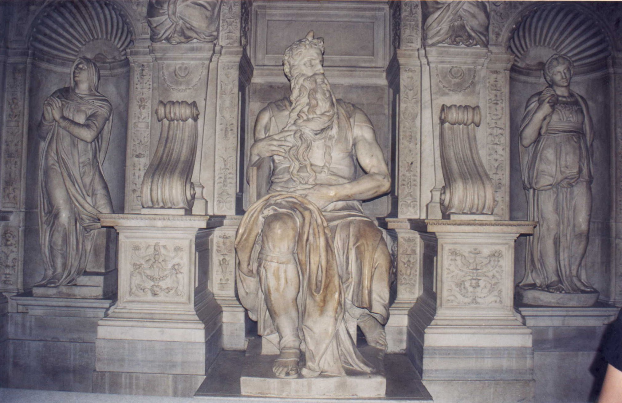 Photo of Moses, a sculpture by Michelangelo Buonarroti